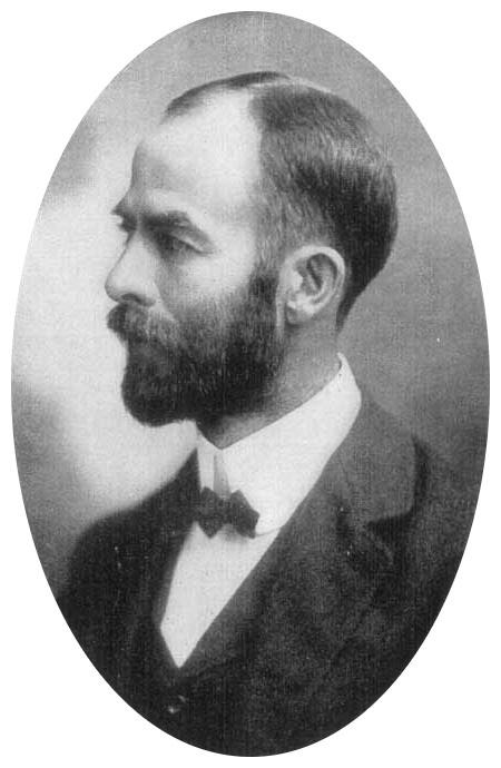 Portrait of Perry Greeley Holden.